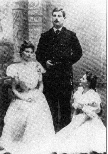 Georg, Olga& Ekaterina Yurievskie -the children of Alexandre II of Russia & Ekaterina Dolgorukaja